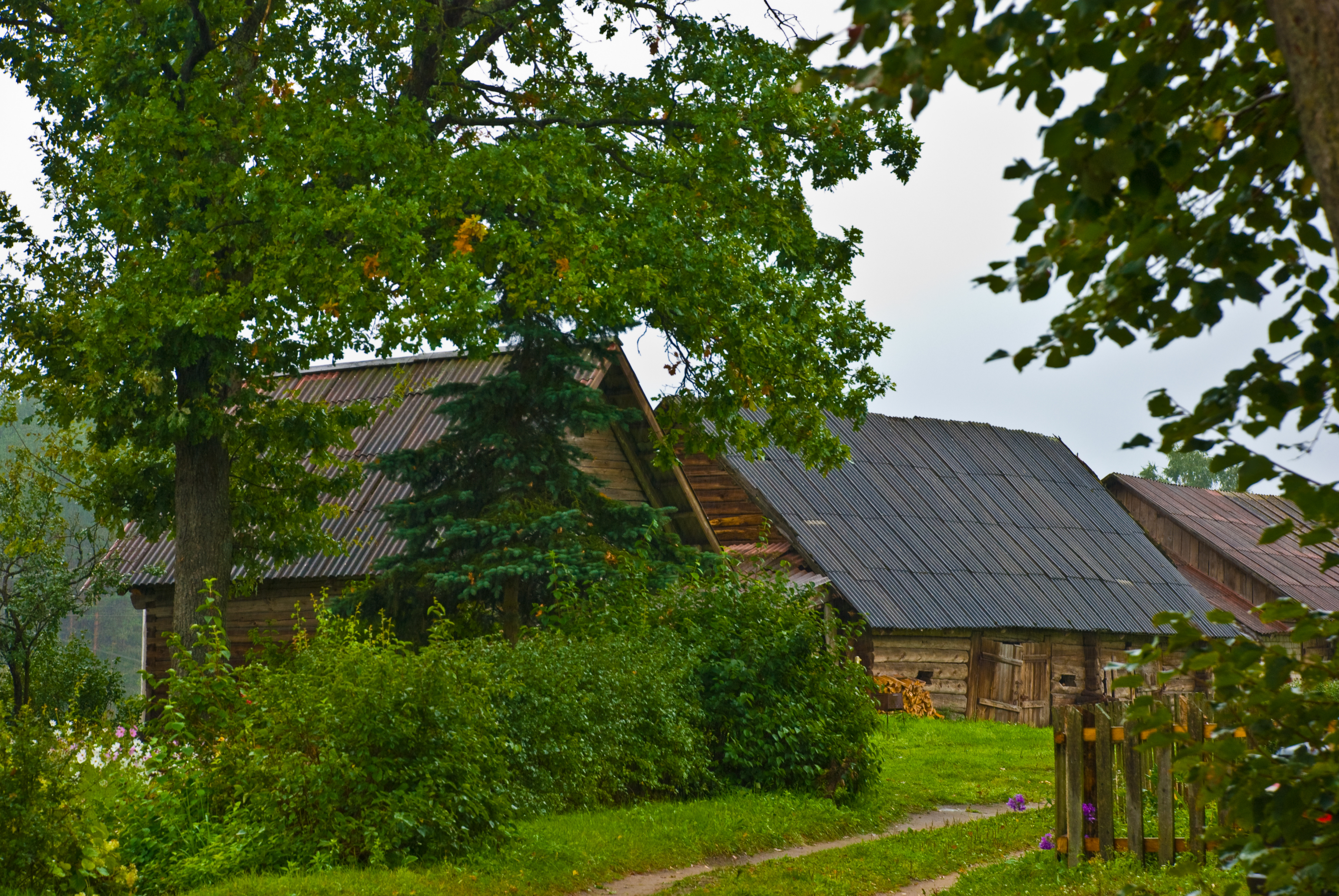 Houses in Zervynos village, Lithuania.